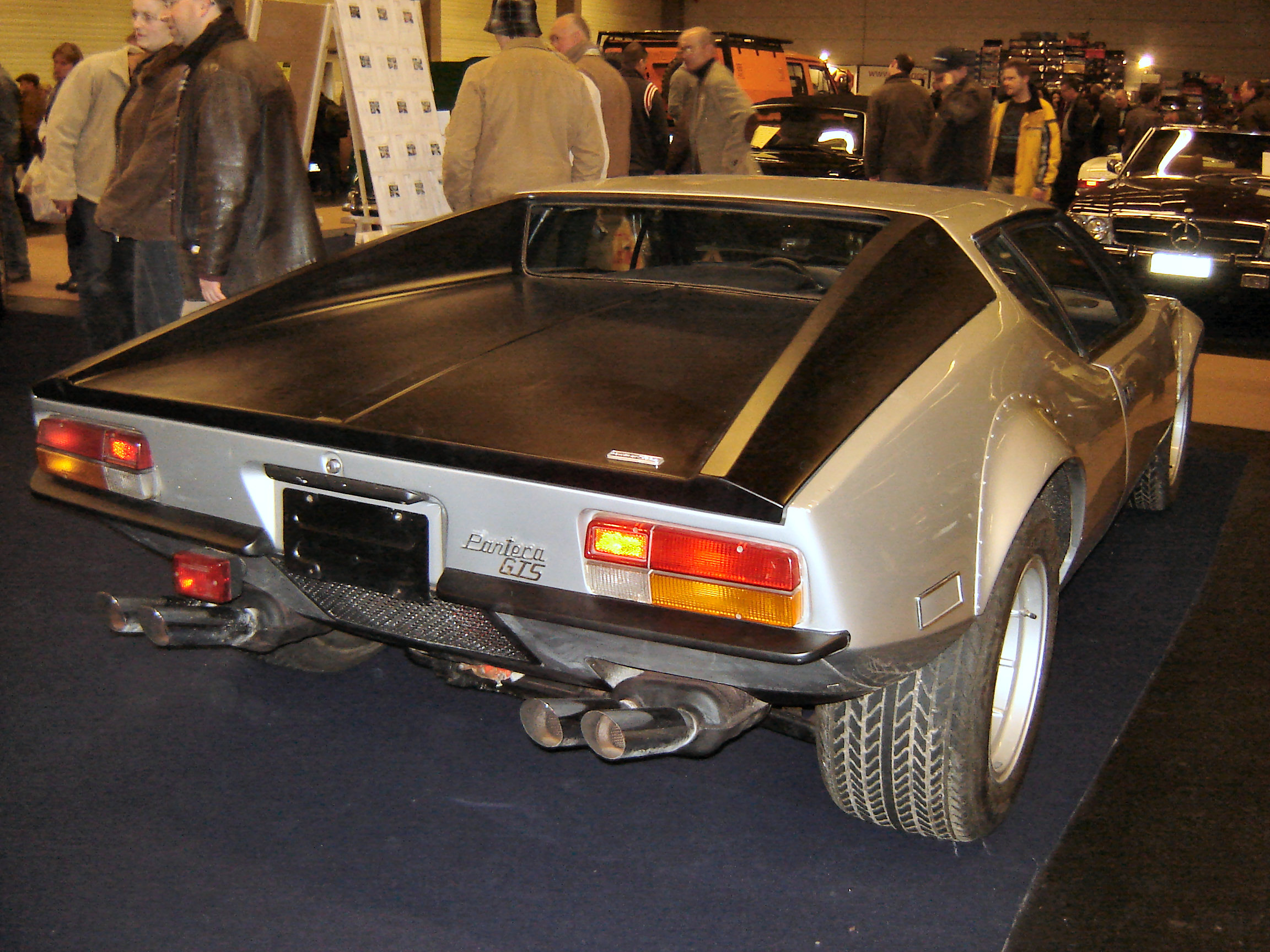 De Tomasa Pantera - backside. Picture taken at Flanders Collection Cars, Flanders Expo, Gent, Belgium